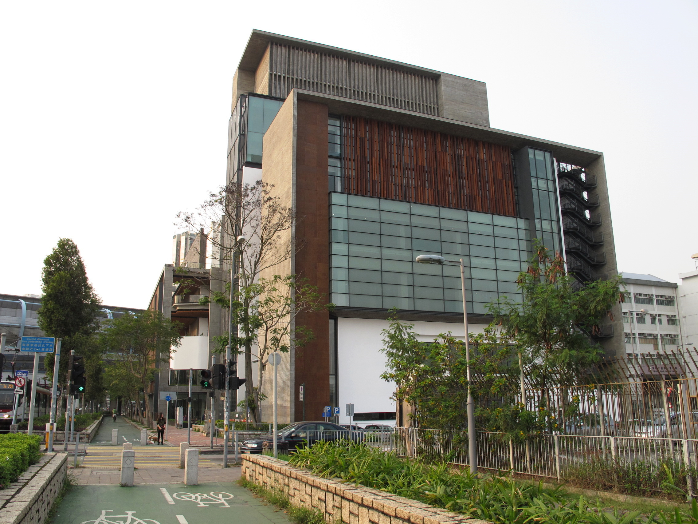 Ping Shan Tin Shui Wai Cultural and Leisure Building 屏山天水圍文化康樂大樓